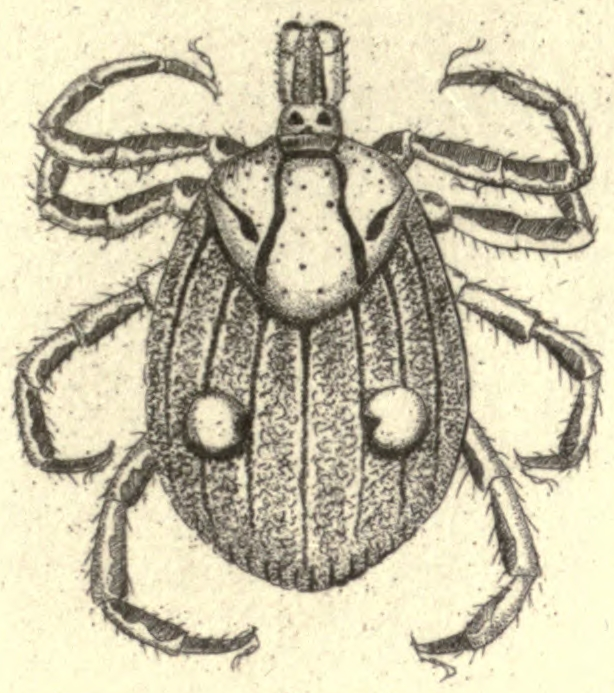 Female of Cosmiomma hippopotamensis, from description as Ixodes bimaculatus, Denny 1843